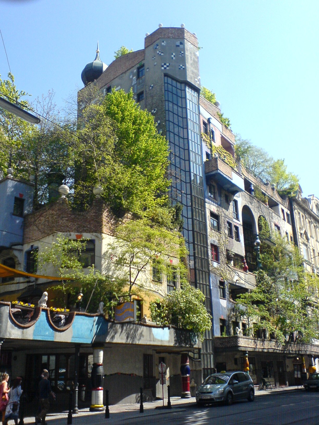 Austria, Vienna, Hundertwasserhaus